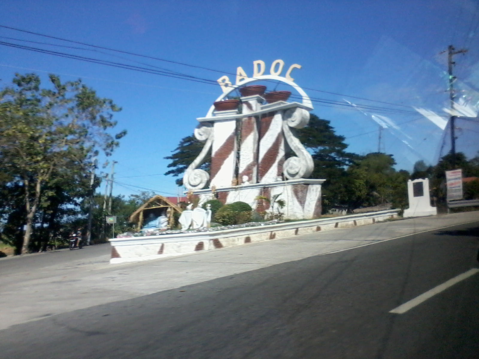 Badoc, Ilocos Norte